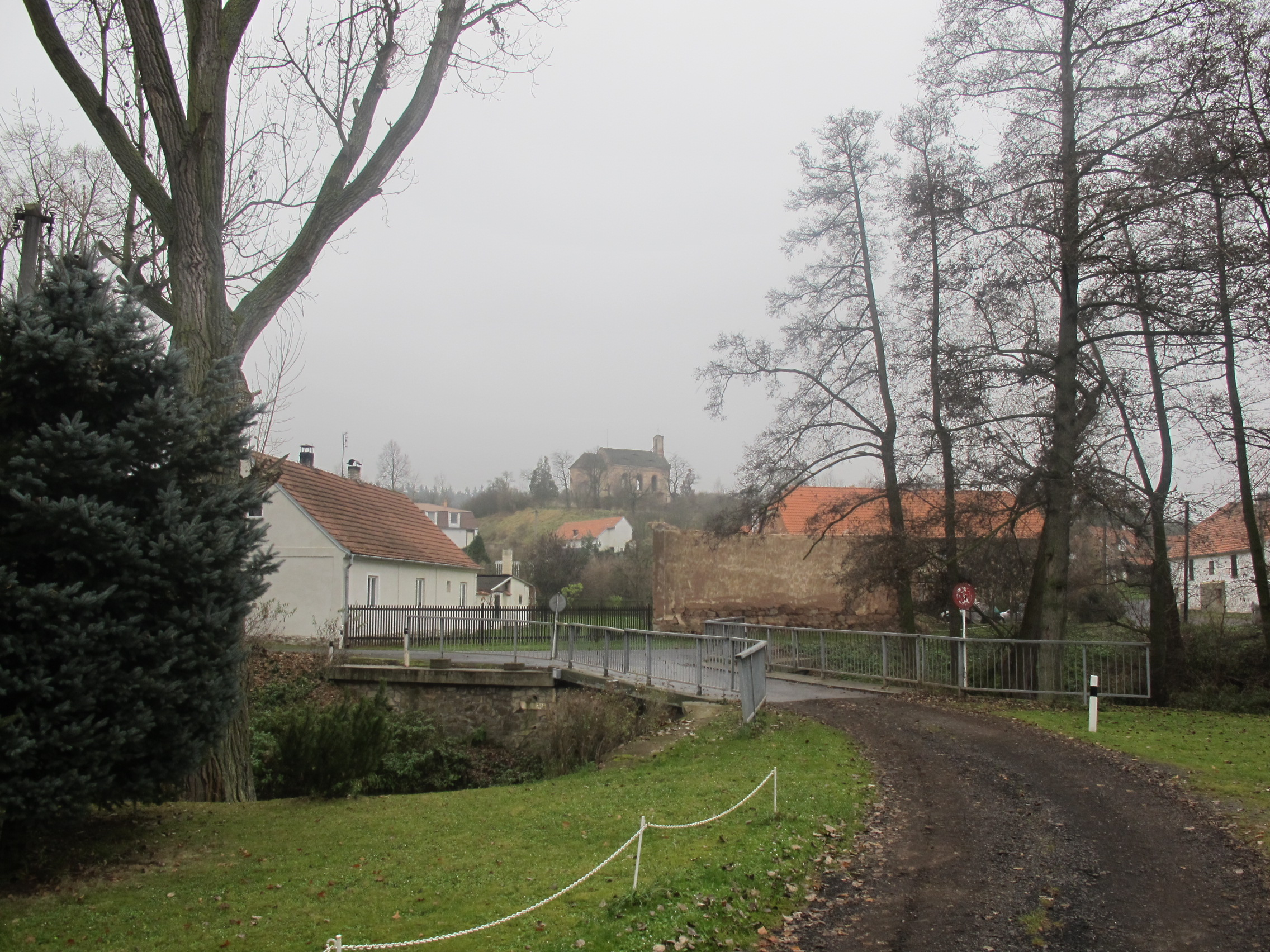 Total view of Přibenice